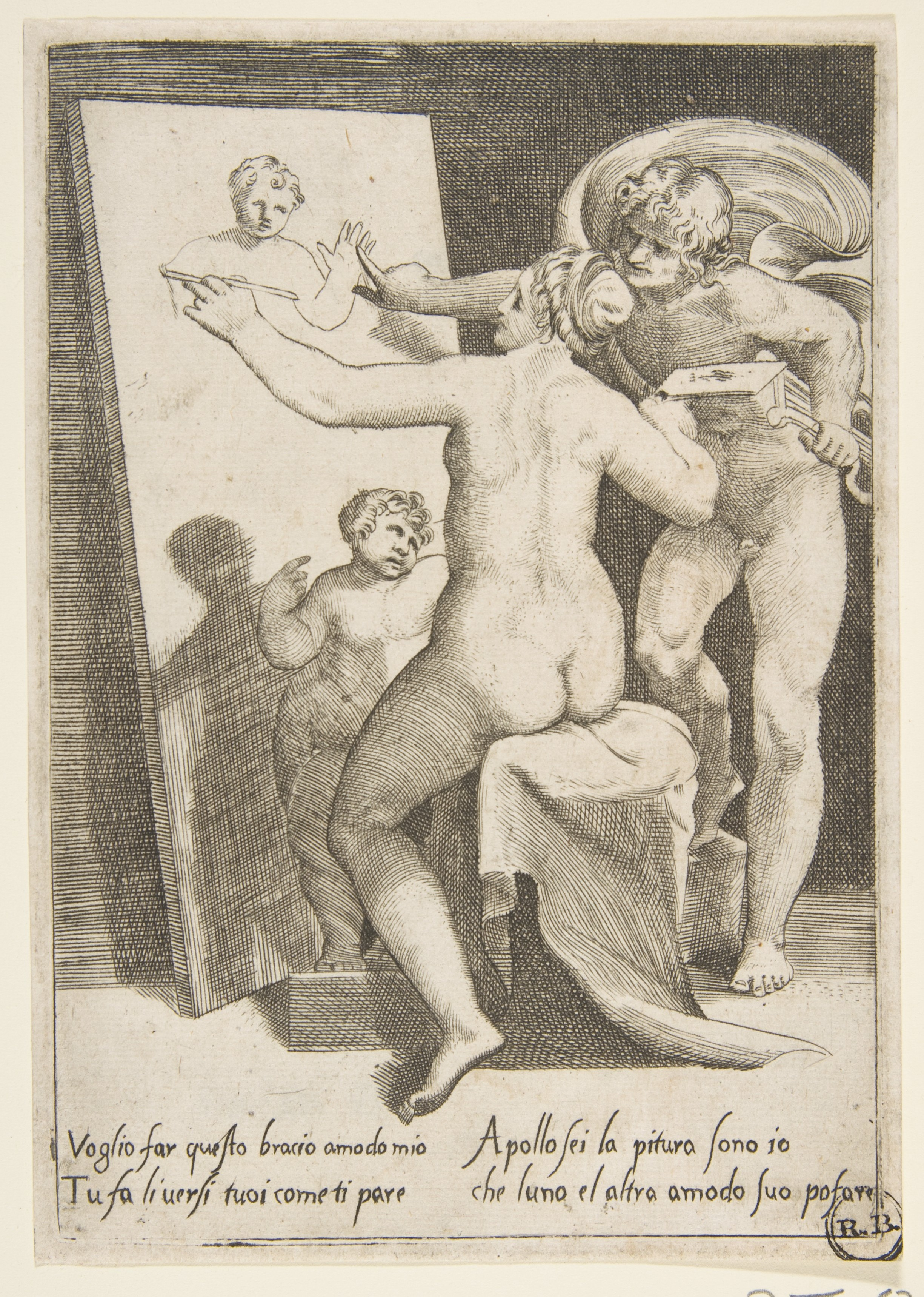 Print; Prints